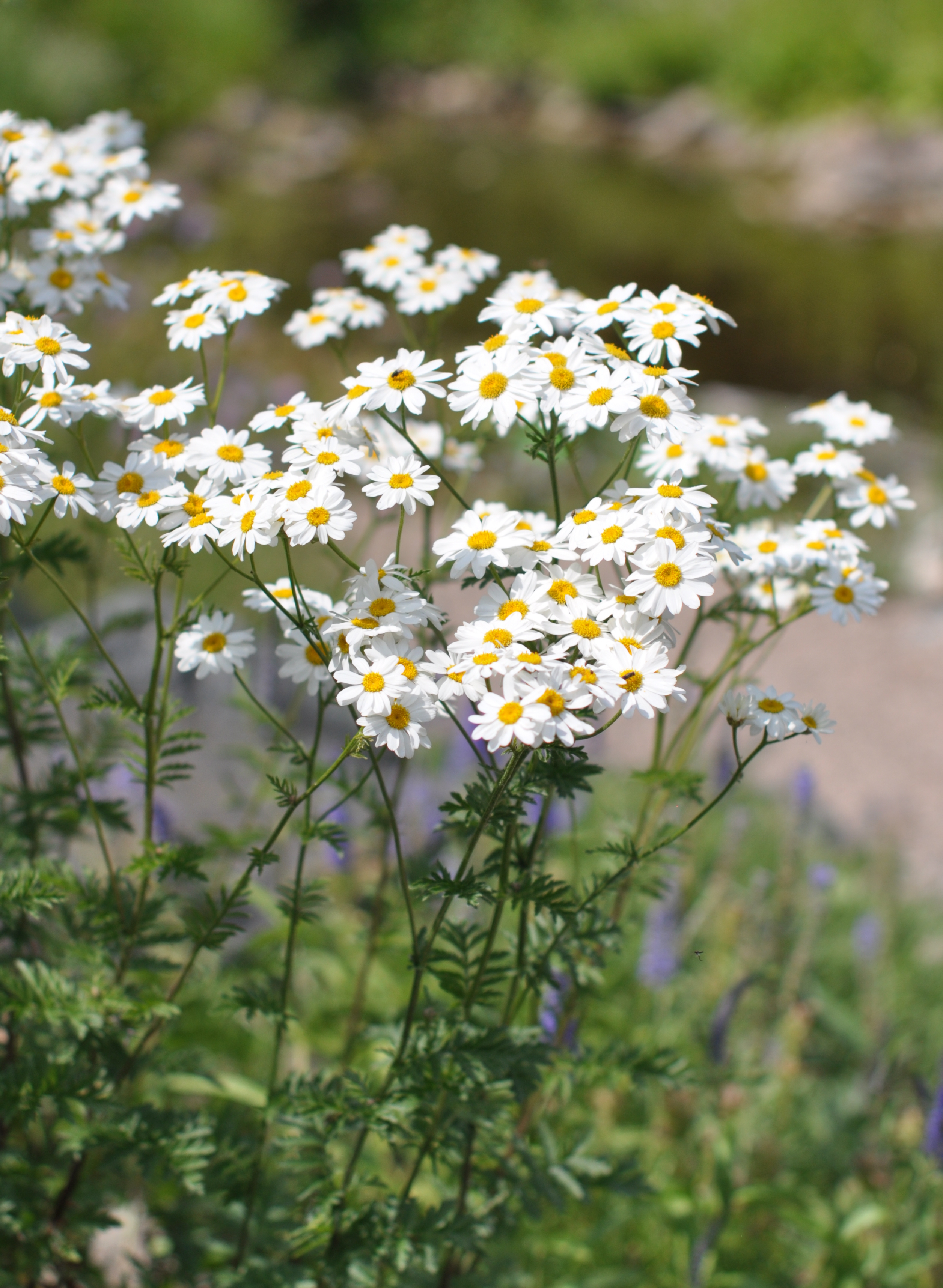 Corymbflower tansy (Tanacetum corymbosum subsp. corymbosum), flowering plants, cultivated in Wrocław University Botanical Garden, Wrocław, Poland.